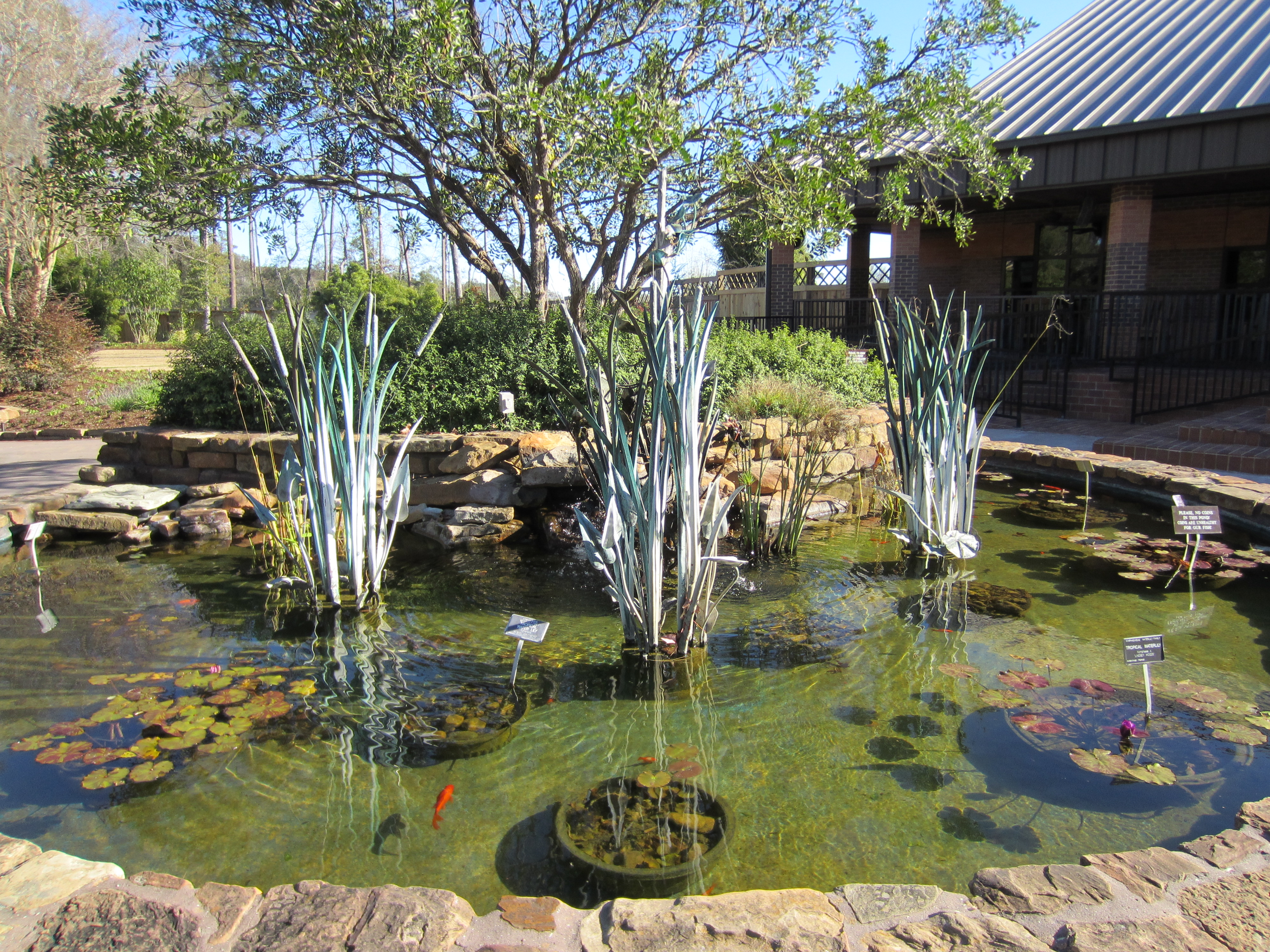 Fish pond at the entrance to Mercer Arboretum and Botanic Gardens in Houston, Texas in January 2012